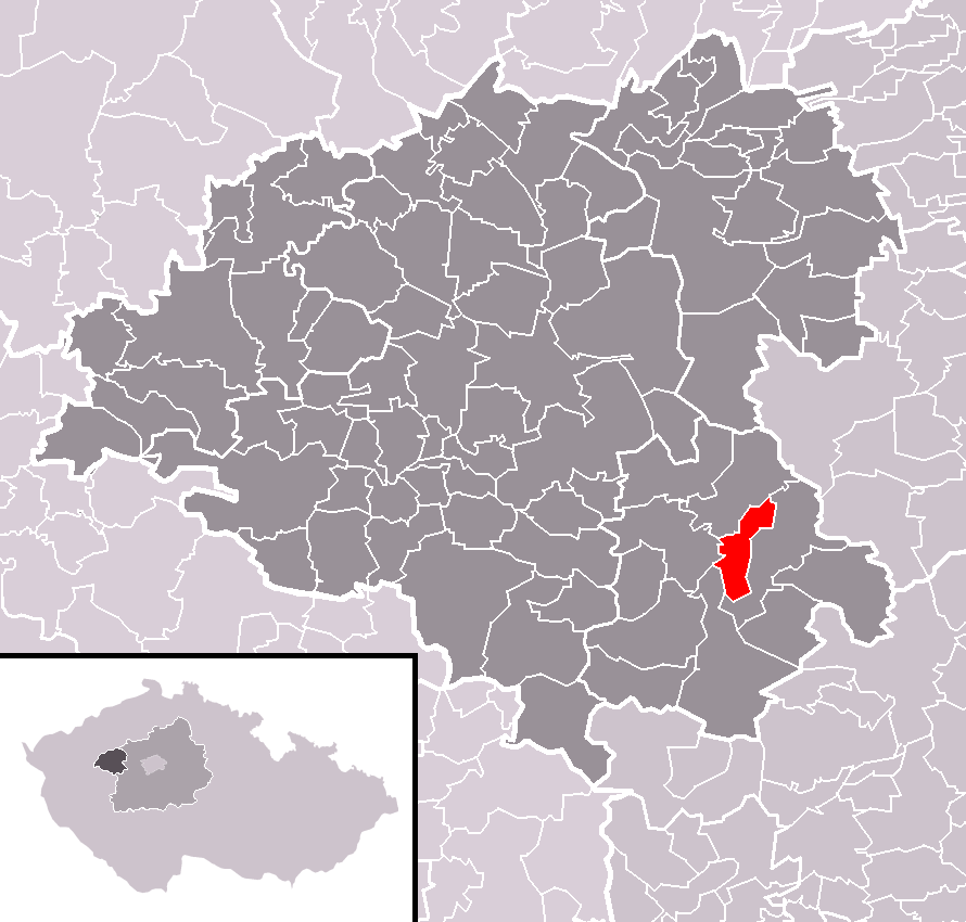 Location of Křivoklát municipality within Rakovník District and (identical) administrative area of Rakovník as a Municipality with Extended Competence.